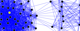 A segment of a social network